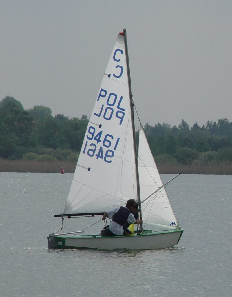 Cadet class dinghy POL 9461 sailing, Kiekrz lake (Poland)